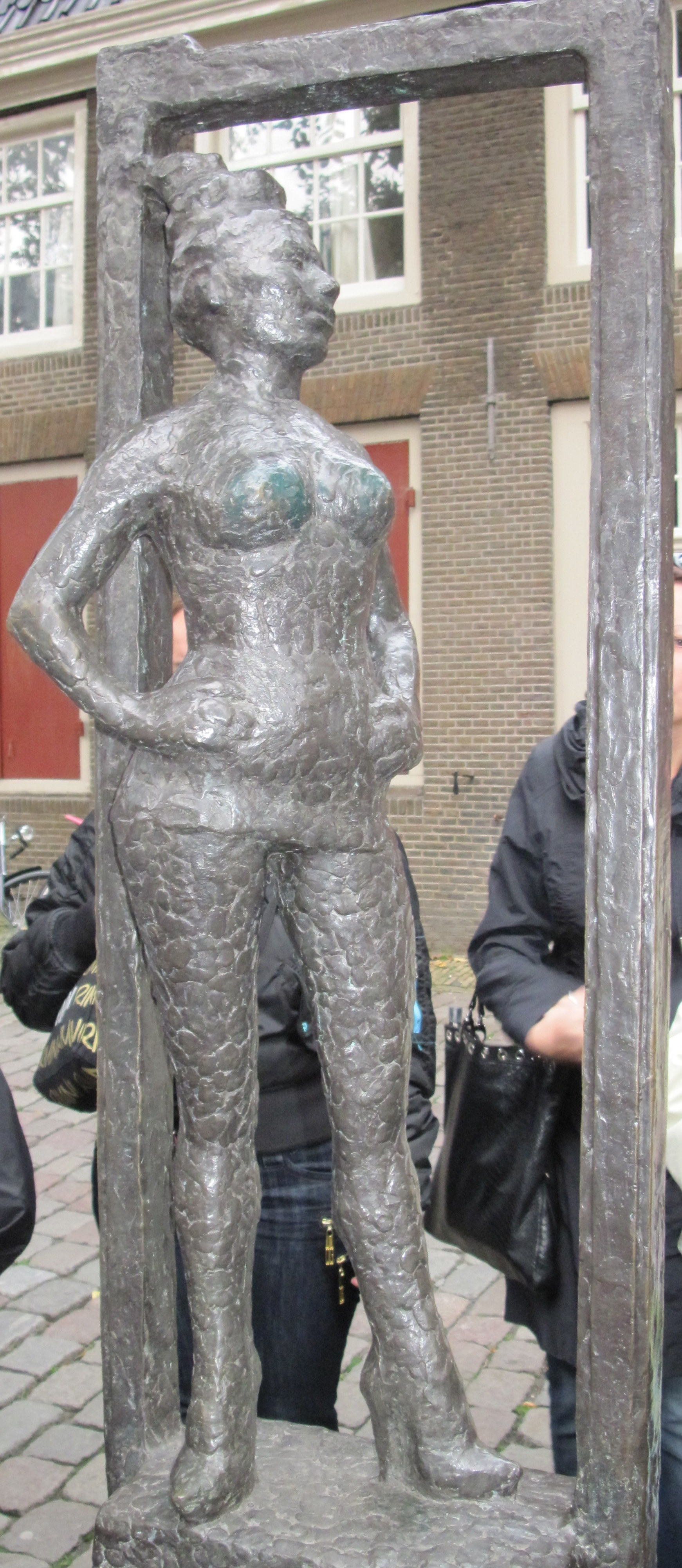 Prostitute statue in Amsterdam